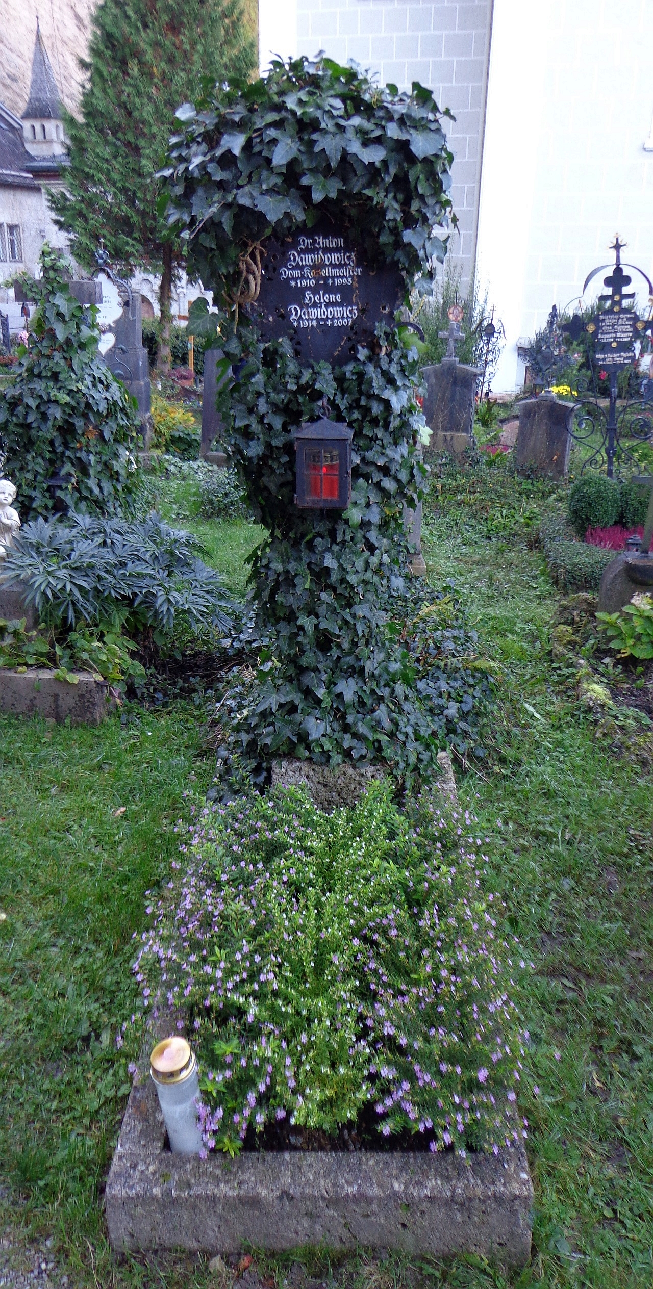 Petersfriedhof Salzburg, grave of Anton Dawidowicz